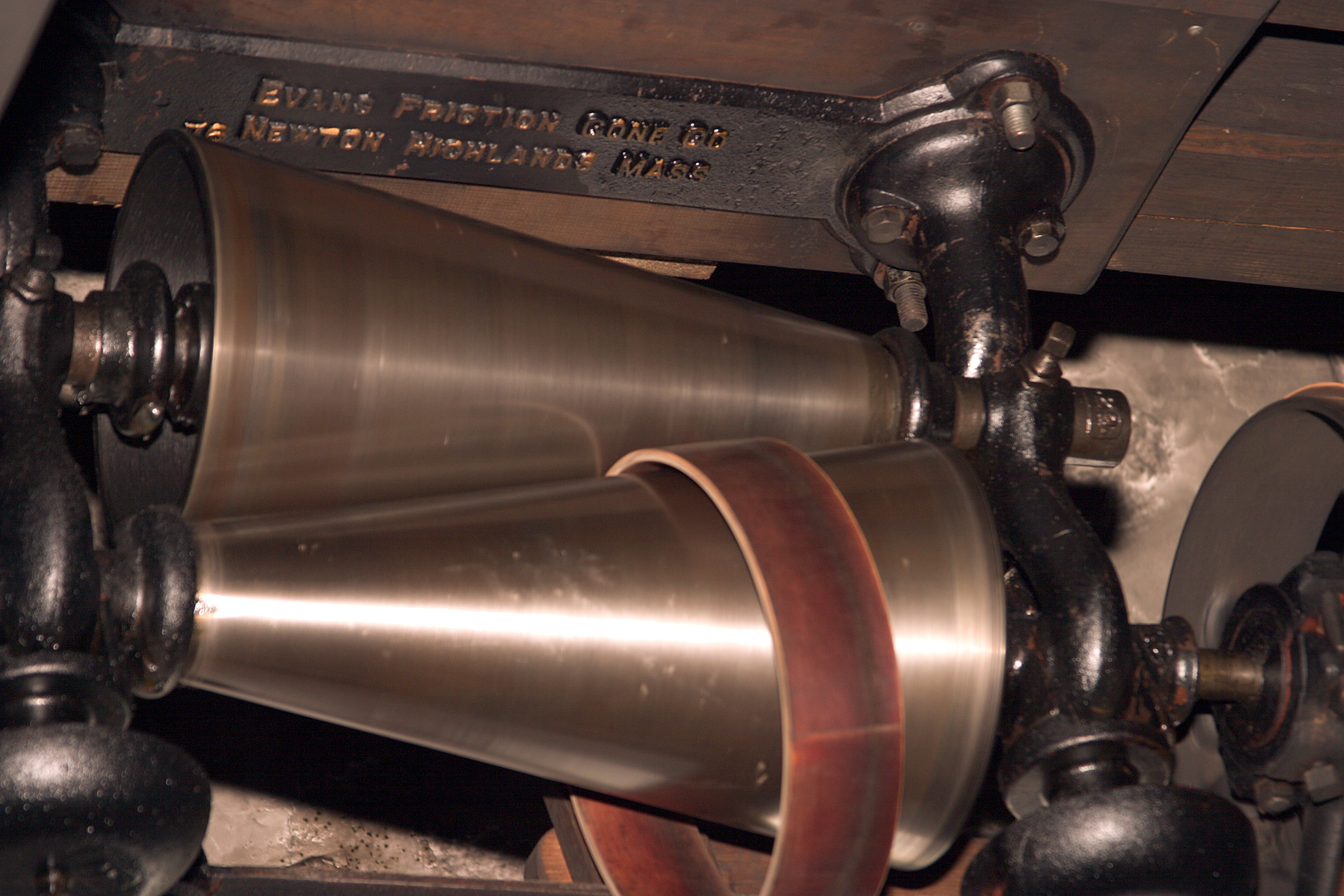 Evans Friction Cone, Cone Ring Transmission, variable speed mechanism, machine shop, Hagley Museum